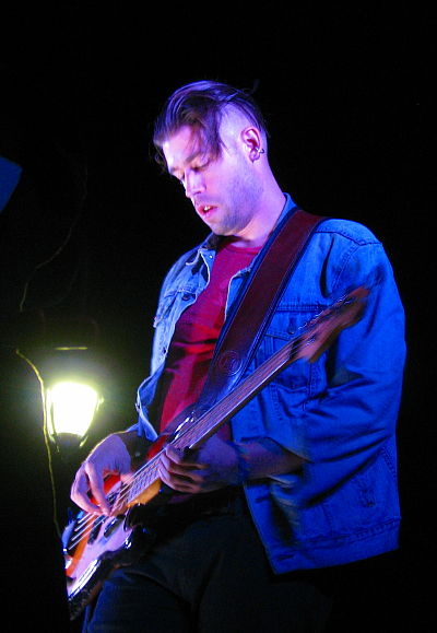 Erik Kertes of Satellite playing at WBJB Summer Concert Series on the Beach at Belmar, NJ on 08152013. Photo by LHCollins.